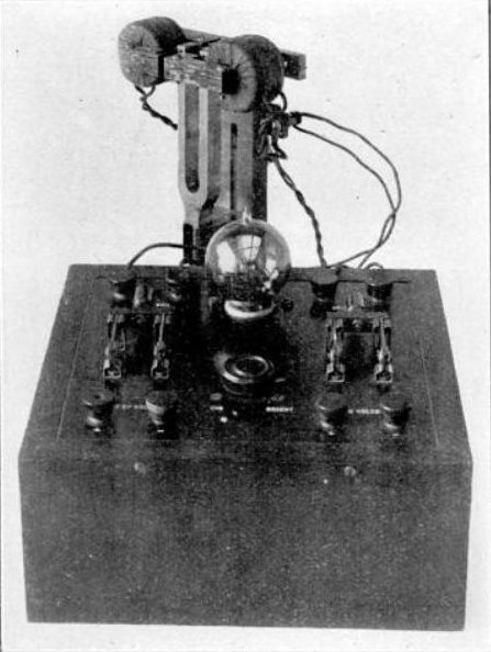 Tuning fork frequency standard used by the U.S. National Bureau of Standards (now the National Institute of Standards and Technology, NIST) in 1927. It consists of a 1000 Hz tuning fork with its tines between the poles of two electromagnets connected to a vacuum tube electronic oscillator circuit. Feedback from the vacuum tube caused the fork to vibrate at its resonant frequency. This method of exciting the fork kept its frequency more accurate than striking it. This was a working standard; it was calibrated by comparing it to the primary standard for time and frequency, the swinging pendulum of a precision Shortt free pendulum clock. An accuracy of a few parts per 100,000 was achievable.